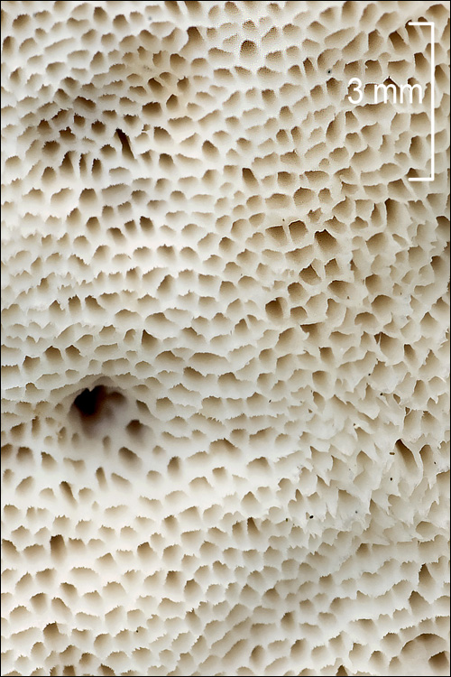 Fungus 'Tyromyces fissilis'